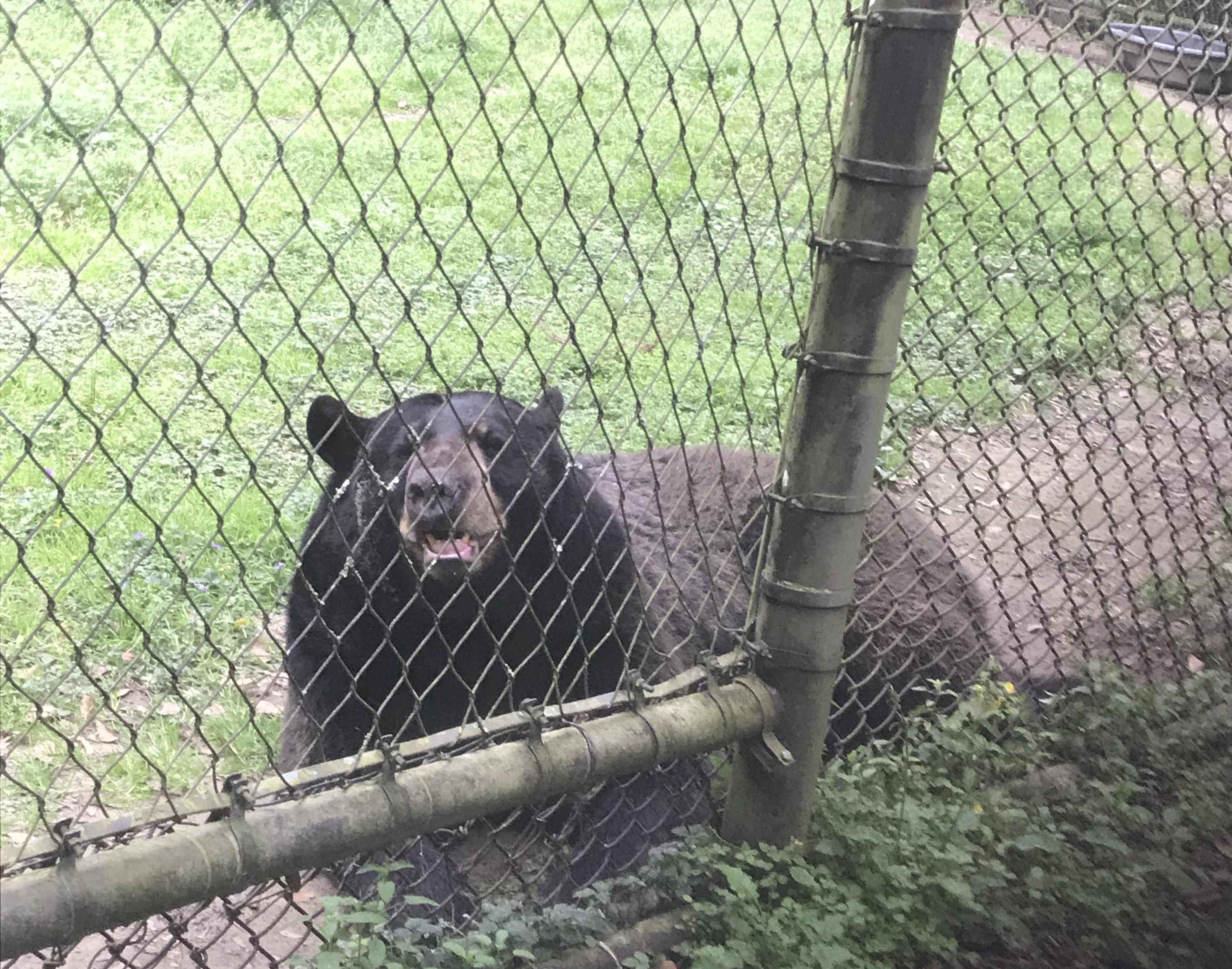 Black bear pictured at the animal farm at the Charles Towne Landing, Charleston, South Carolina, US